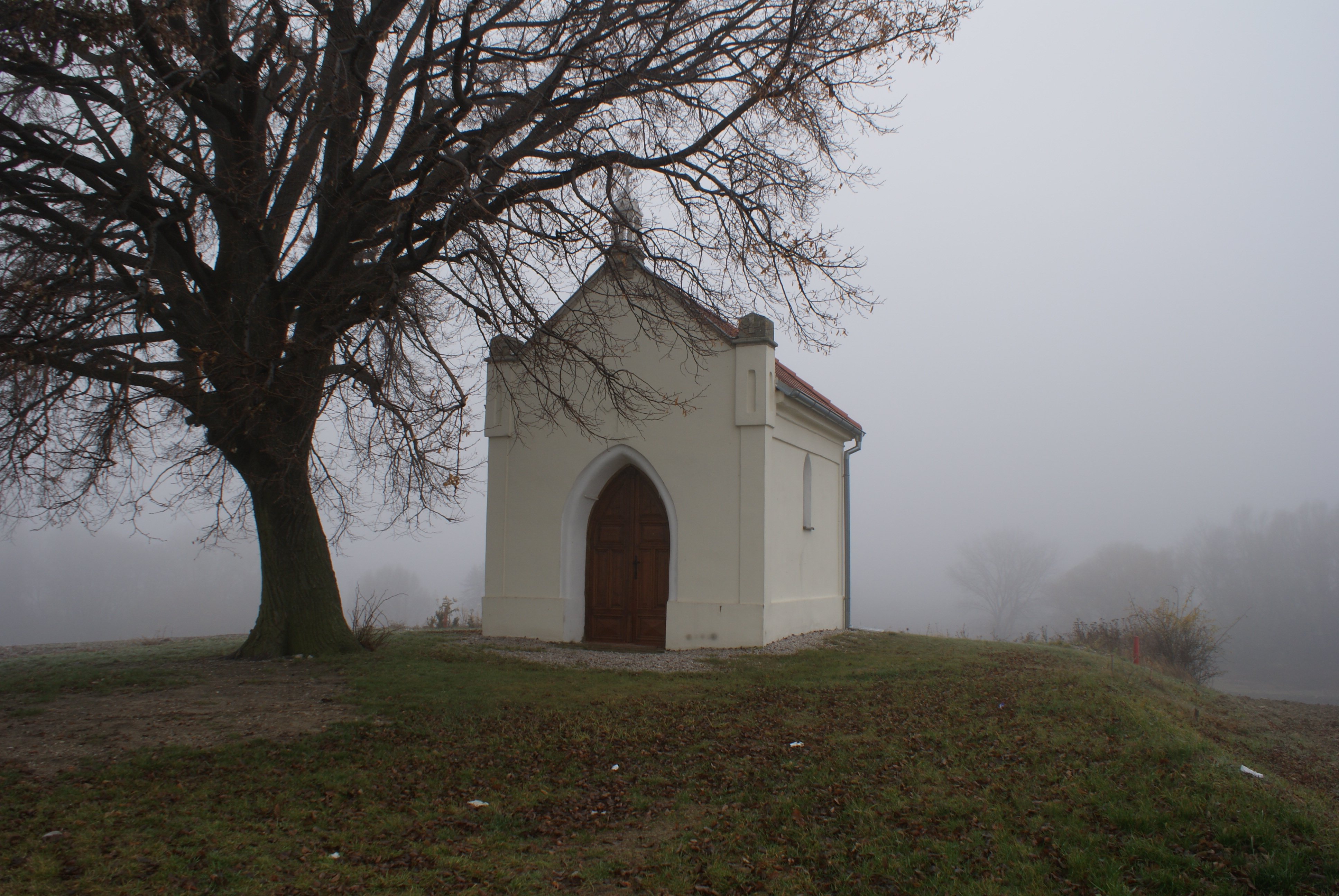 Štefanová, Pezinok District, Slovakia, chapel of St Rosalie